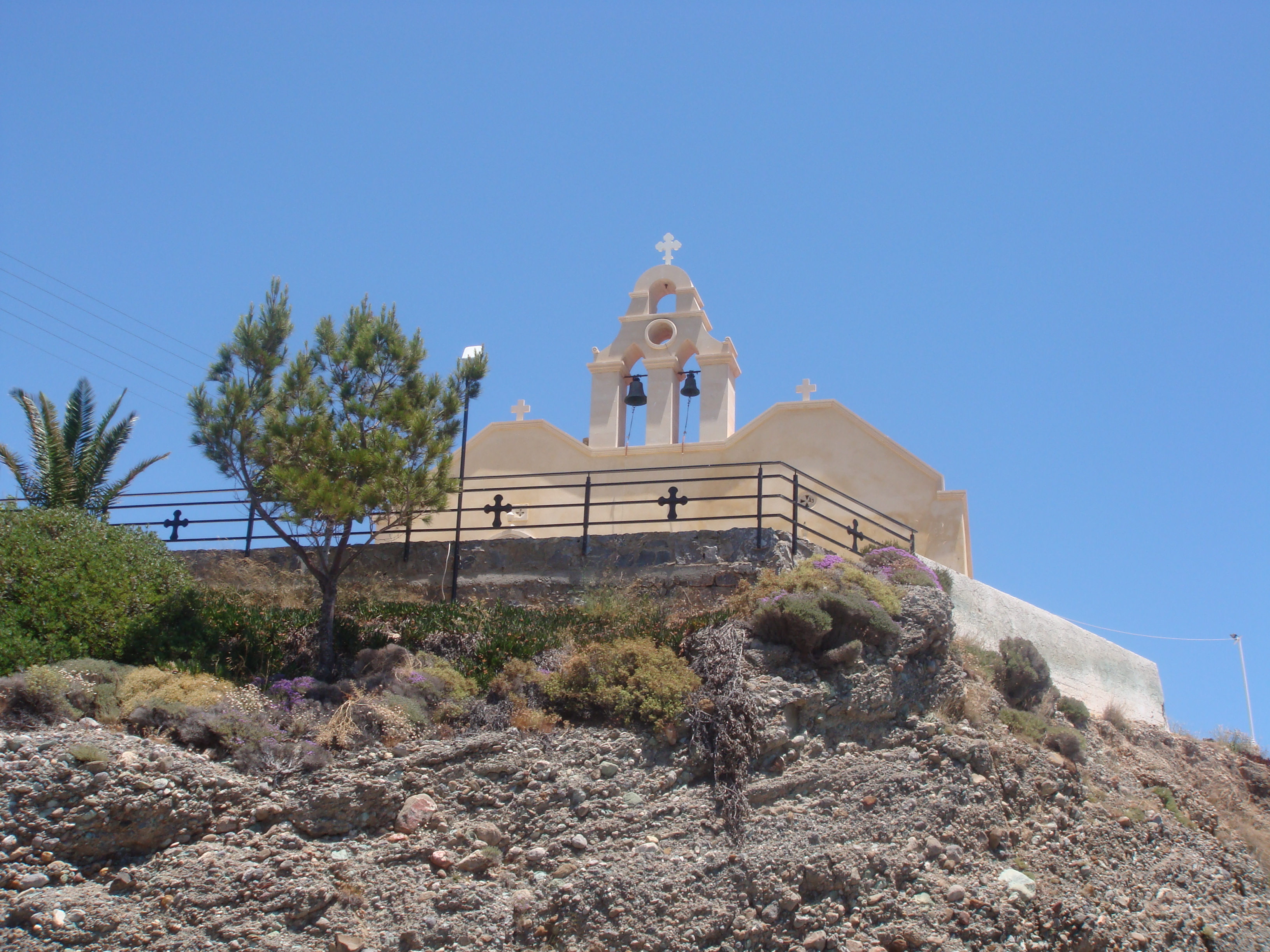 Church of Agios Panteleimon, en route to Orino, in Lasithi prefecture.